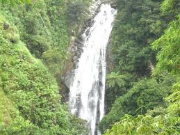 curugmaja